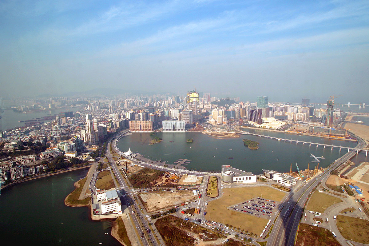 Once a bay (Bahia Da Praia Grande), after the redevelopment project, Nam Van Lake (South Bay lake) became one of two man made lakes in the Macau Peninsula.